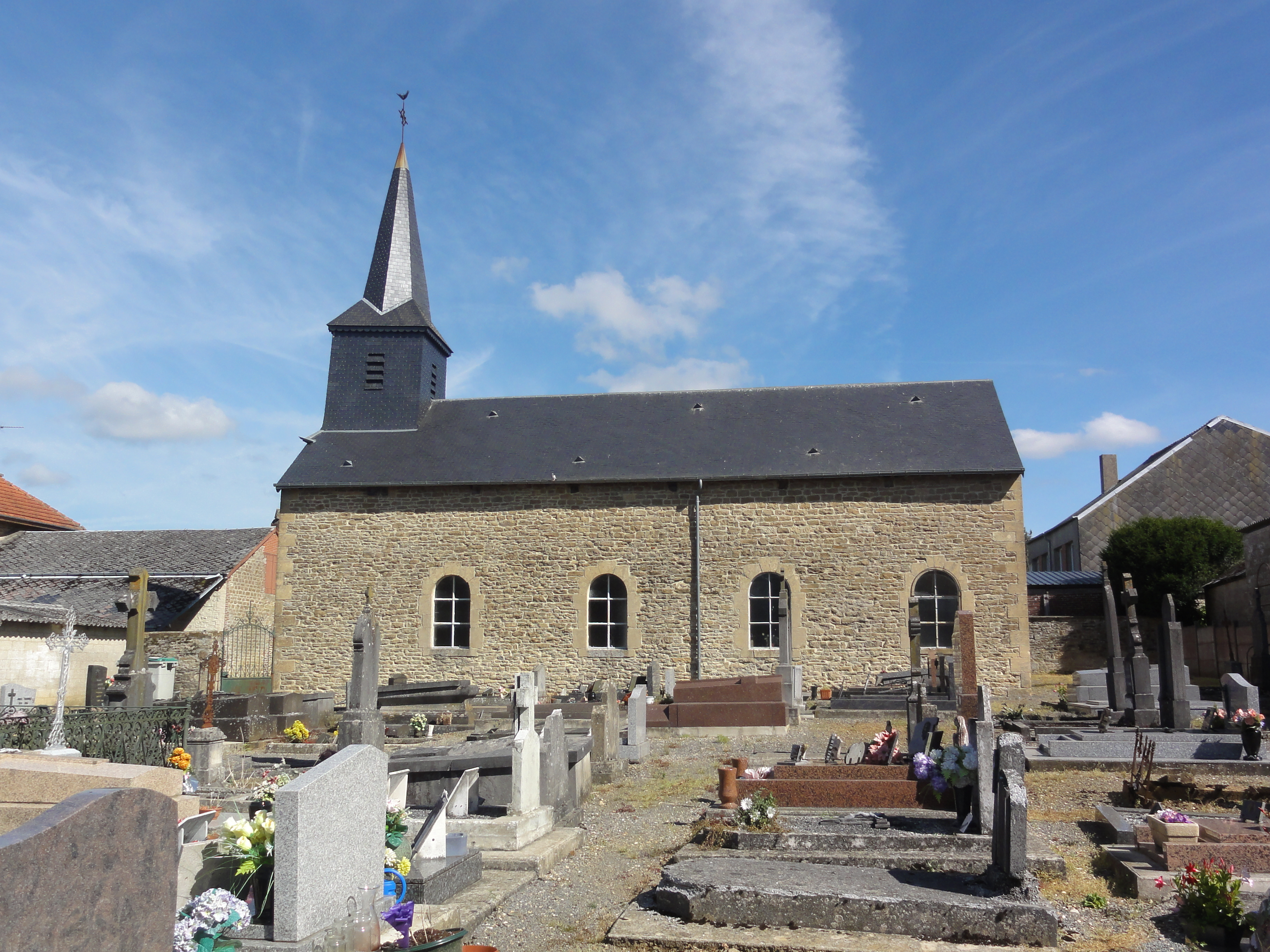 Tremblois-lès-Rocroi (Ardennes) église, vue du sud